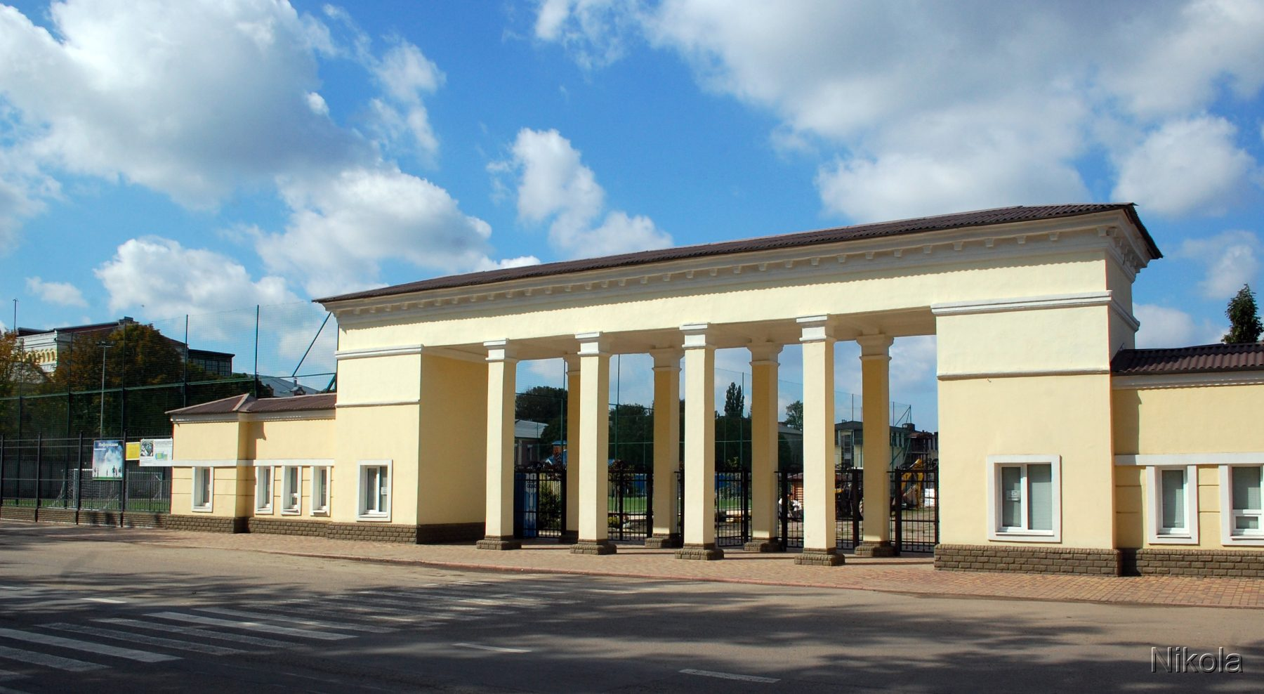 Lenin Stadium in Luhansk, Ukraine